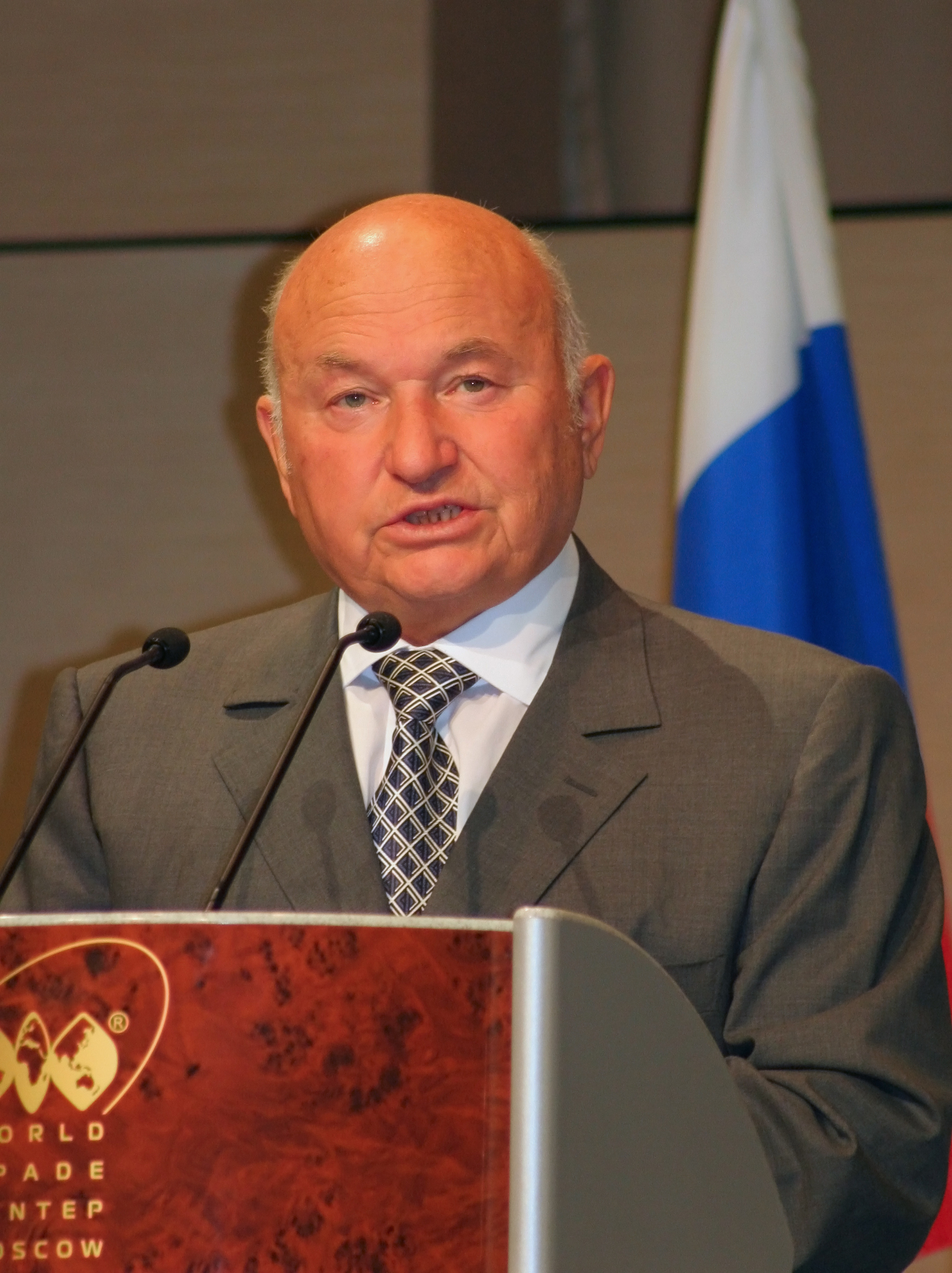 Russian politician Yuri Luzhkov (here as Moscow mayor yet) during the opening speech at a UNESCO conference in Moscow.